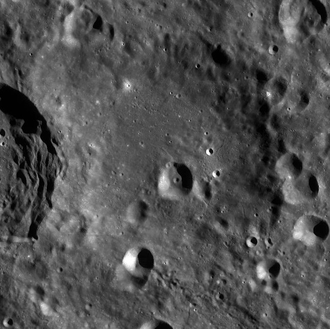 Brouwer crater, on the far side of the moon. Mosaic of LRO WAC images. Aspect ratio adjusted from Mercator Projection.